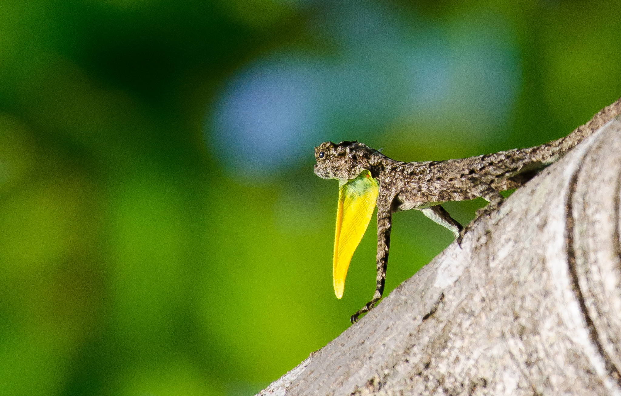 Biodiversity of Nelliyampathy